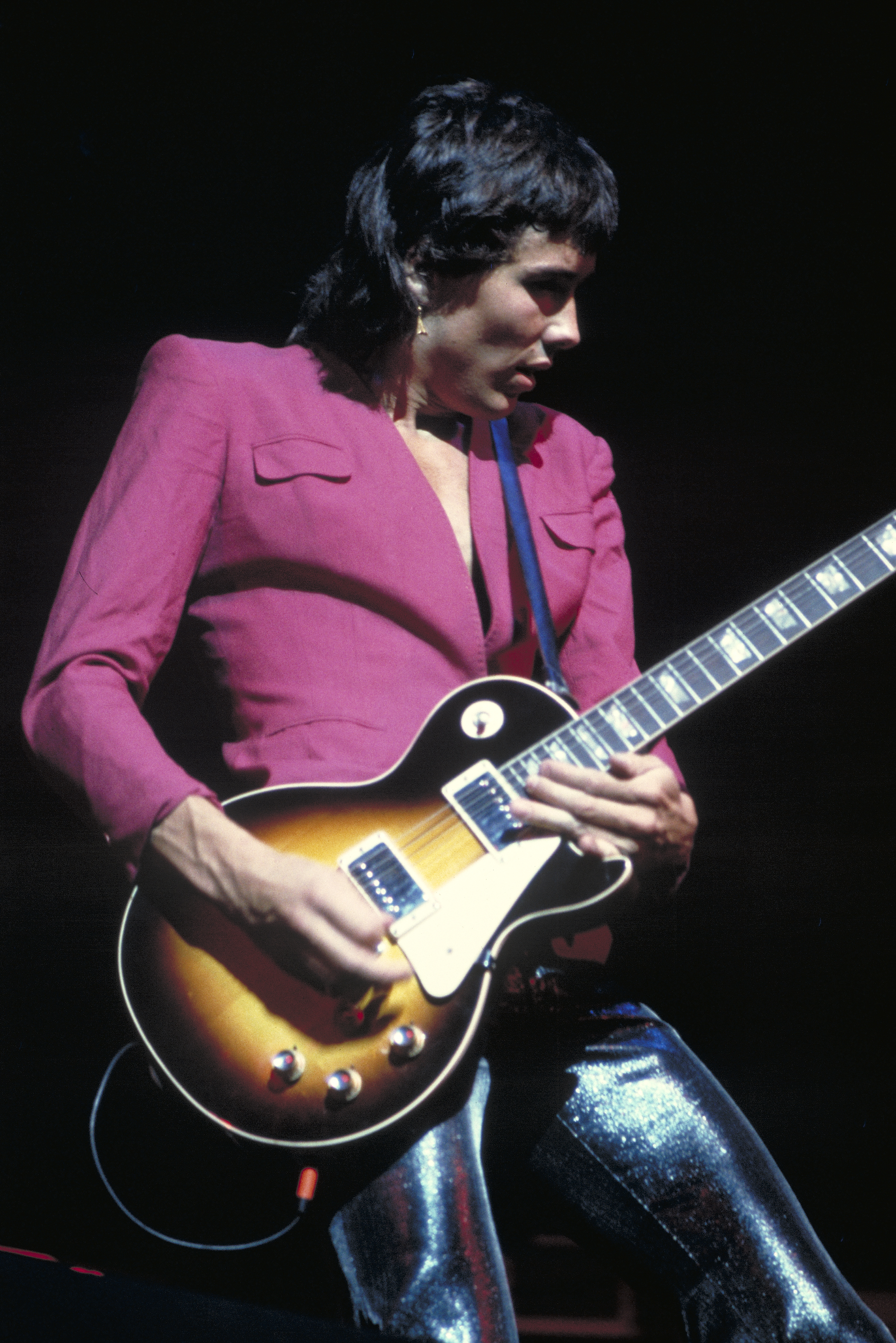 George Kooymans, Dutch guitarist for the rock band Golden Earring